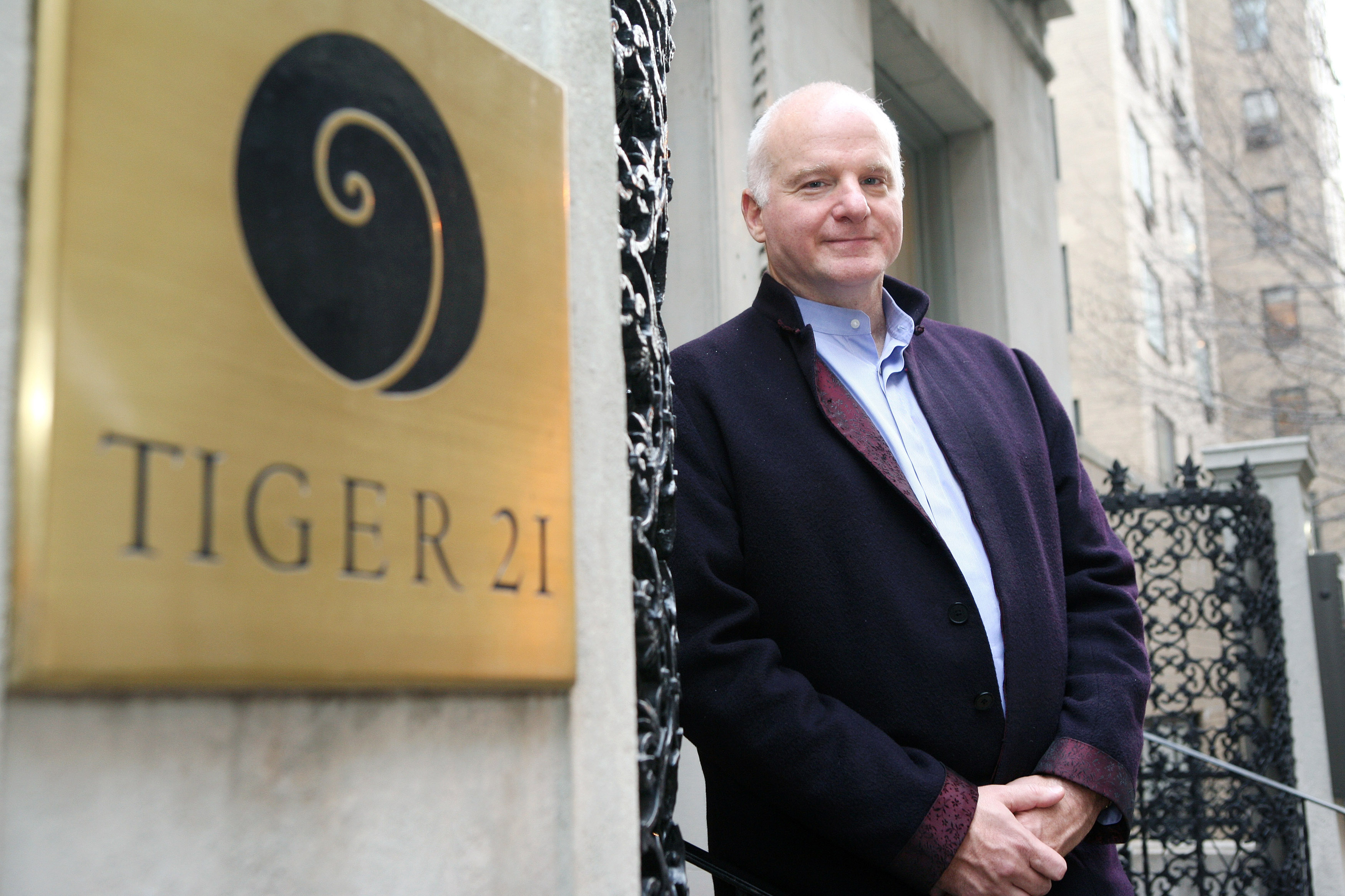 Michael Sonnenfeldt outside the TIGER 21 office in New York City.